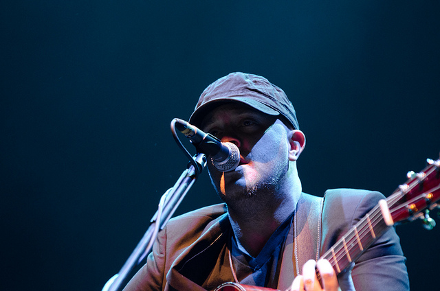 Photo of Ryan Sheridan the Irish singer songwriter from county Monaghan.